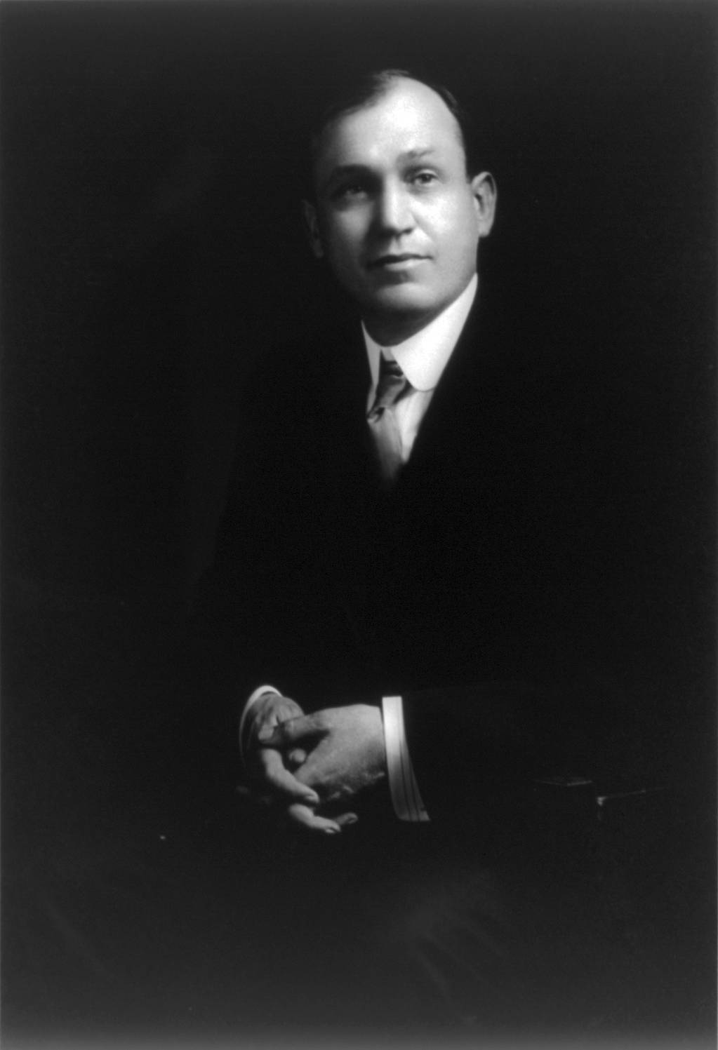 Walter Lewis Hensley, Democratic member of the U.S. House of Representatives from Missouri, in office 1911–1919.